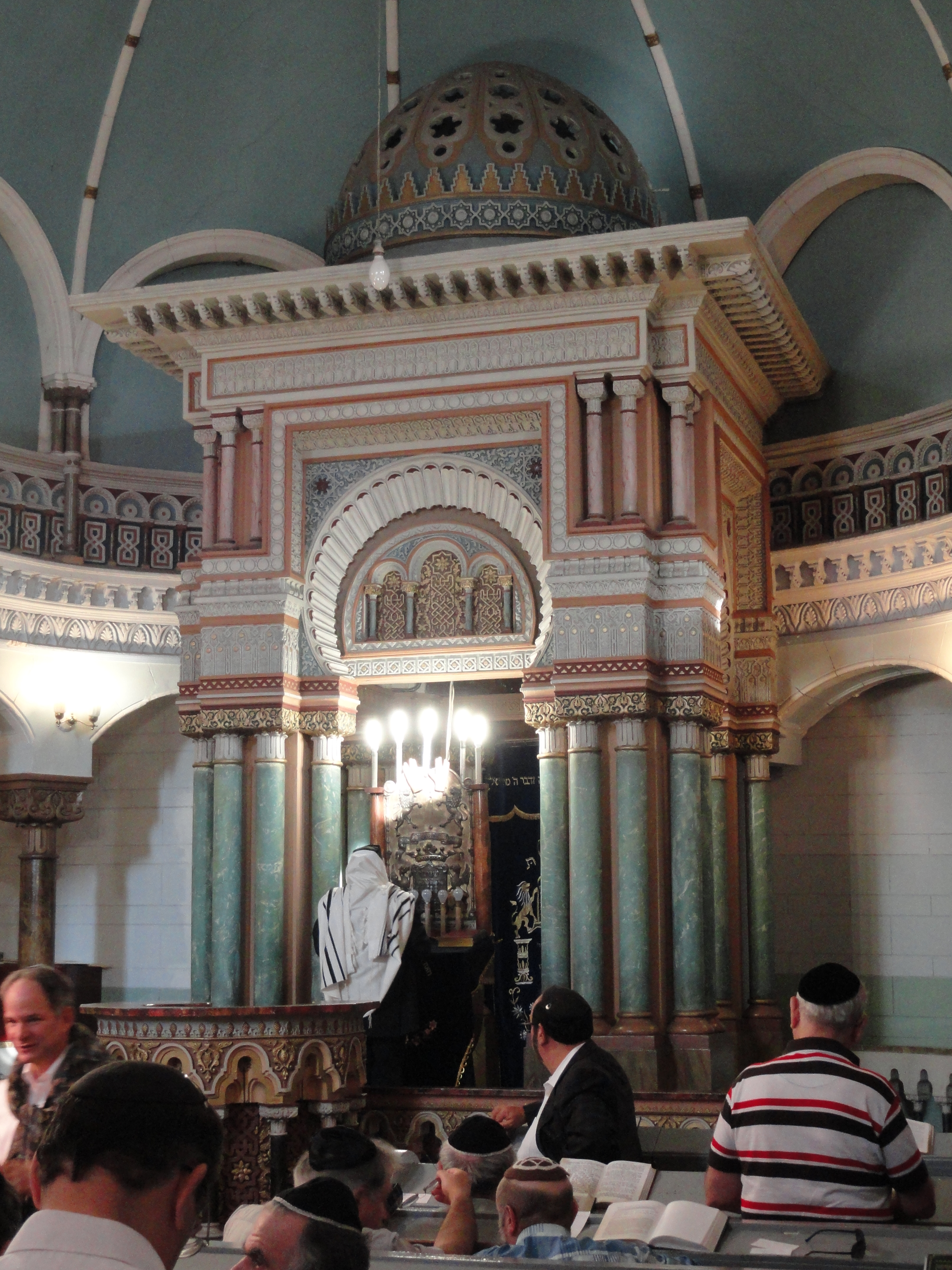 Choral synagogue in Vilnius - The Aron kodesh